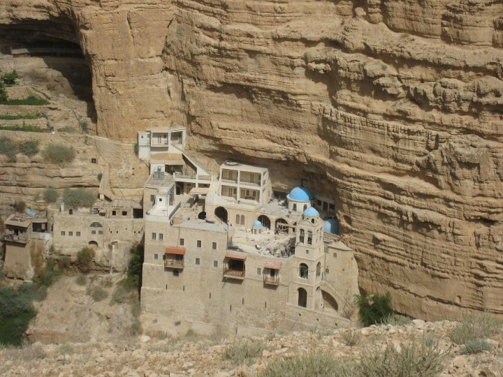 Religion in Palestine